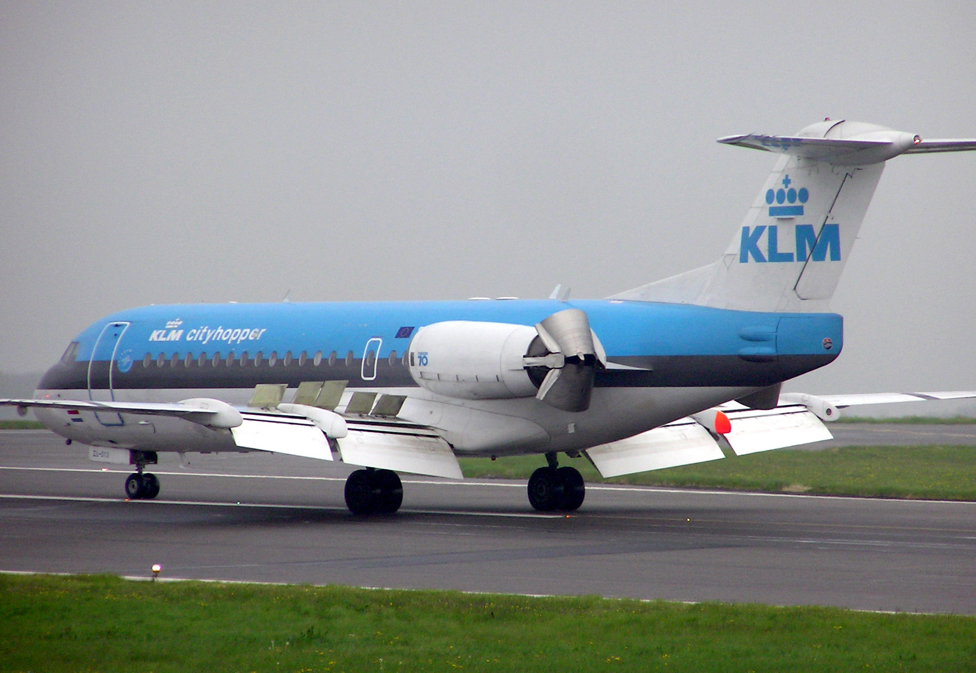 KLM Cityhopper Fokker 70 at Bristol International Airport, Bristol, England. All spoilers/airbrakes are deployed (the five upward-pointing cream-coloured panels on the left wing). Also, the thrust reversers are deployed, as can be seen at the rear of the left engine pod. Aircraft registration unknown. Photographed by Adrian Pingstone in May 2005 and released to the public domain.